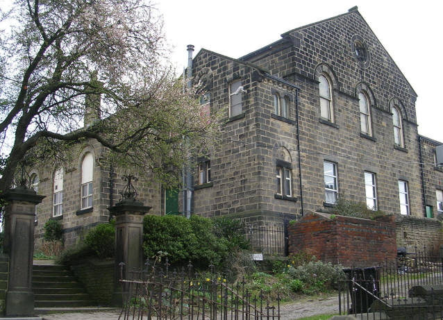 Farsley Community Church - Back Lane This is a joint Methodist-Baptist Church